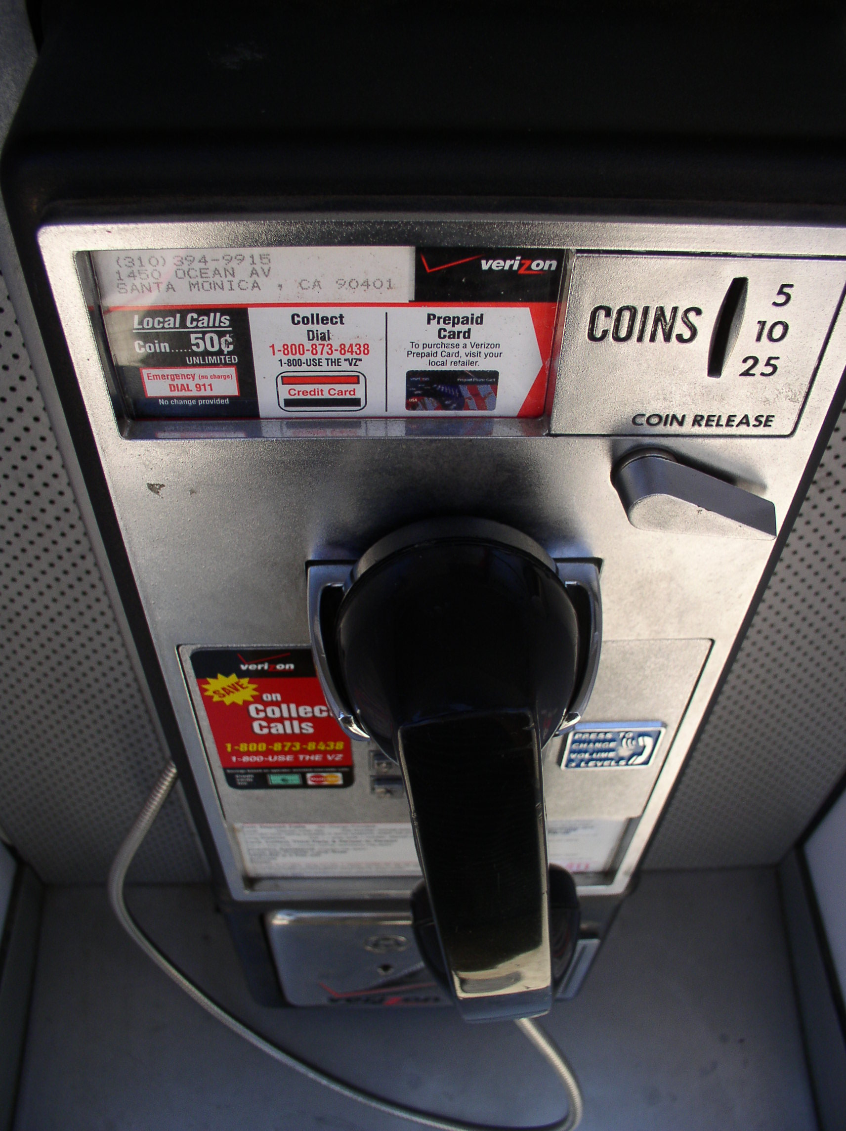 GTE Automatic Electric 120-type single-slot coin phone in Santa Monica, CA (2004)